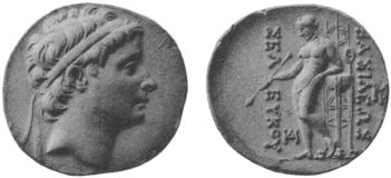 Coin of Seleucus II Callinicus. Greek inscription reads ΒΑΣΙΛΕΩΣ ΣΕΛΕΥΚΟΥ (king Seleucus).From 1889 edition of Principal Coins of the Ancients. Public Domain scans granted by ESnible from his site (July 10th 2004 agreement by e-mail).